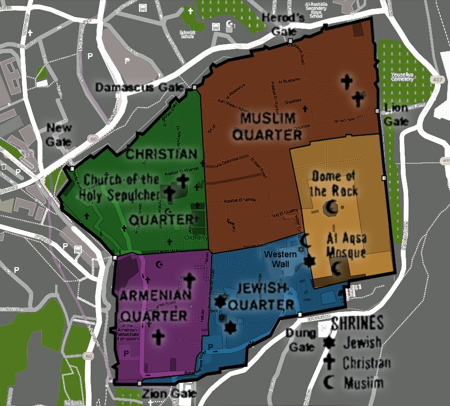 A diagram of the quarters of the old city of Jerusalem - titles in hebrew